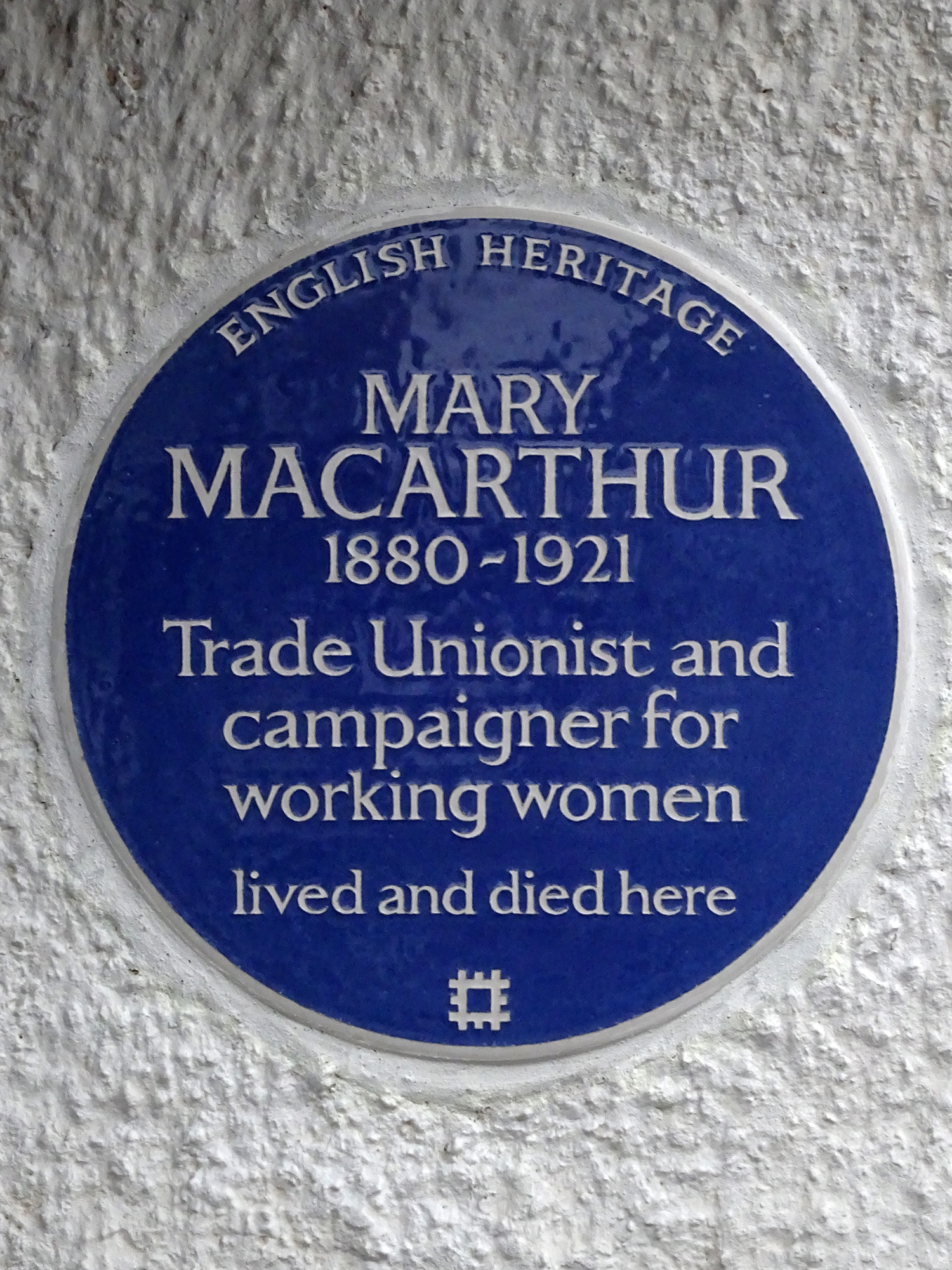 Blue plaque erected on 7th March 2017 by English Heritage at 42 Woodstock Road, Golders Green, London NW11 8ER, London Borough of Barnet. "MARY MACARTHUR 1880-1921 Trade Unionist and campaigner for working women lived and died here"